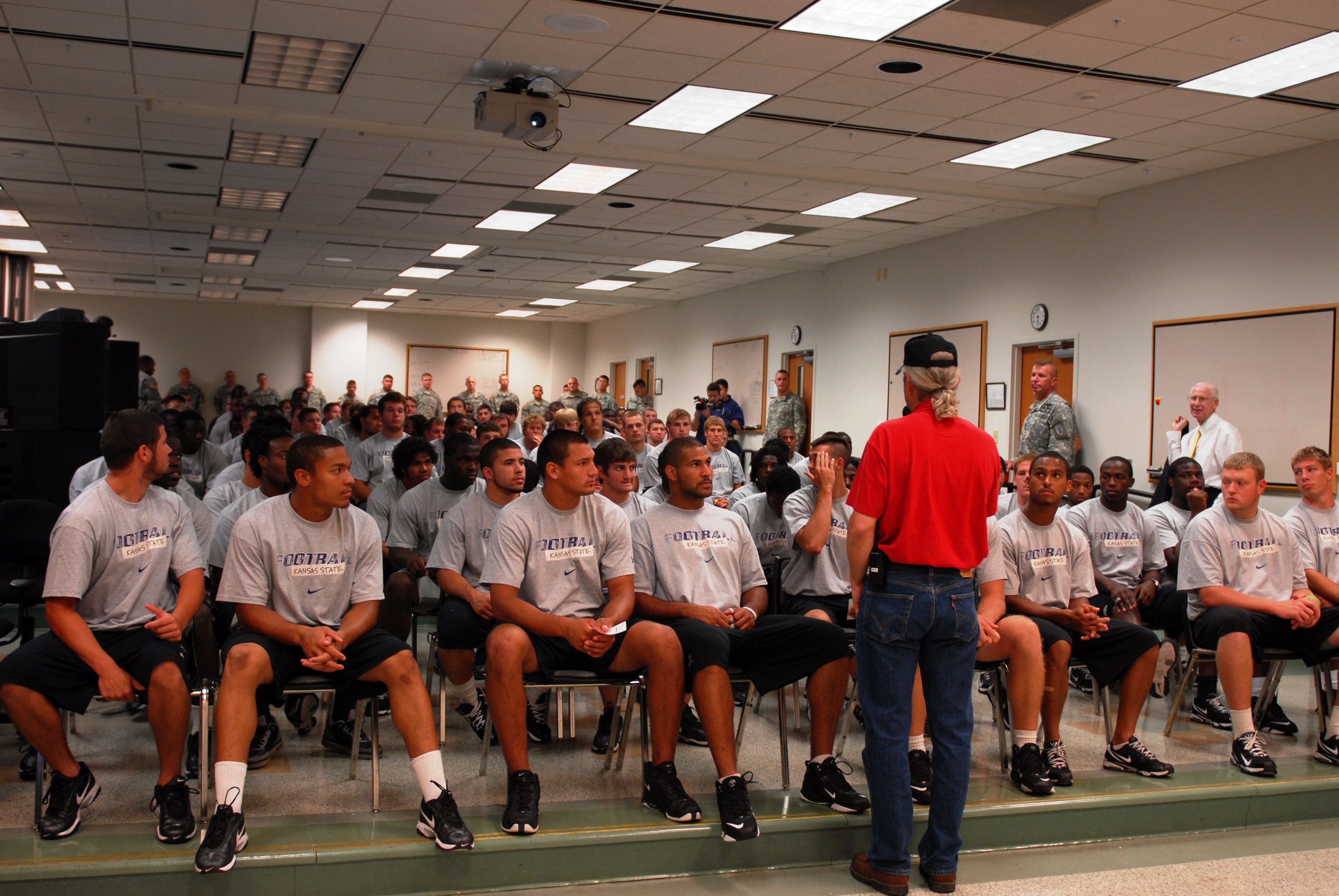 The Kansas State University football team, along with infantrymen of Co. B, 1st Bn., 28th Inf. Regt., 4th IBCT, 1st Inf. Div., prepare to take part in a battle simulation July 22 during a visit to the Close Combat Tactical Training Center, Fort Riley.